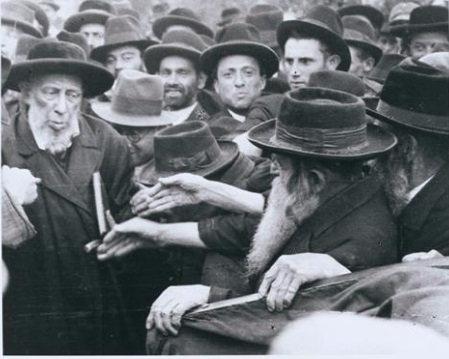 The Chaka Yitzchak Grand Rabbi of Spinka, d. 1944 , Auschwitz